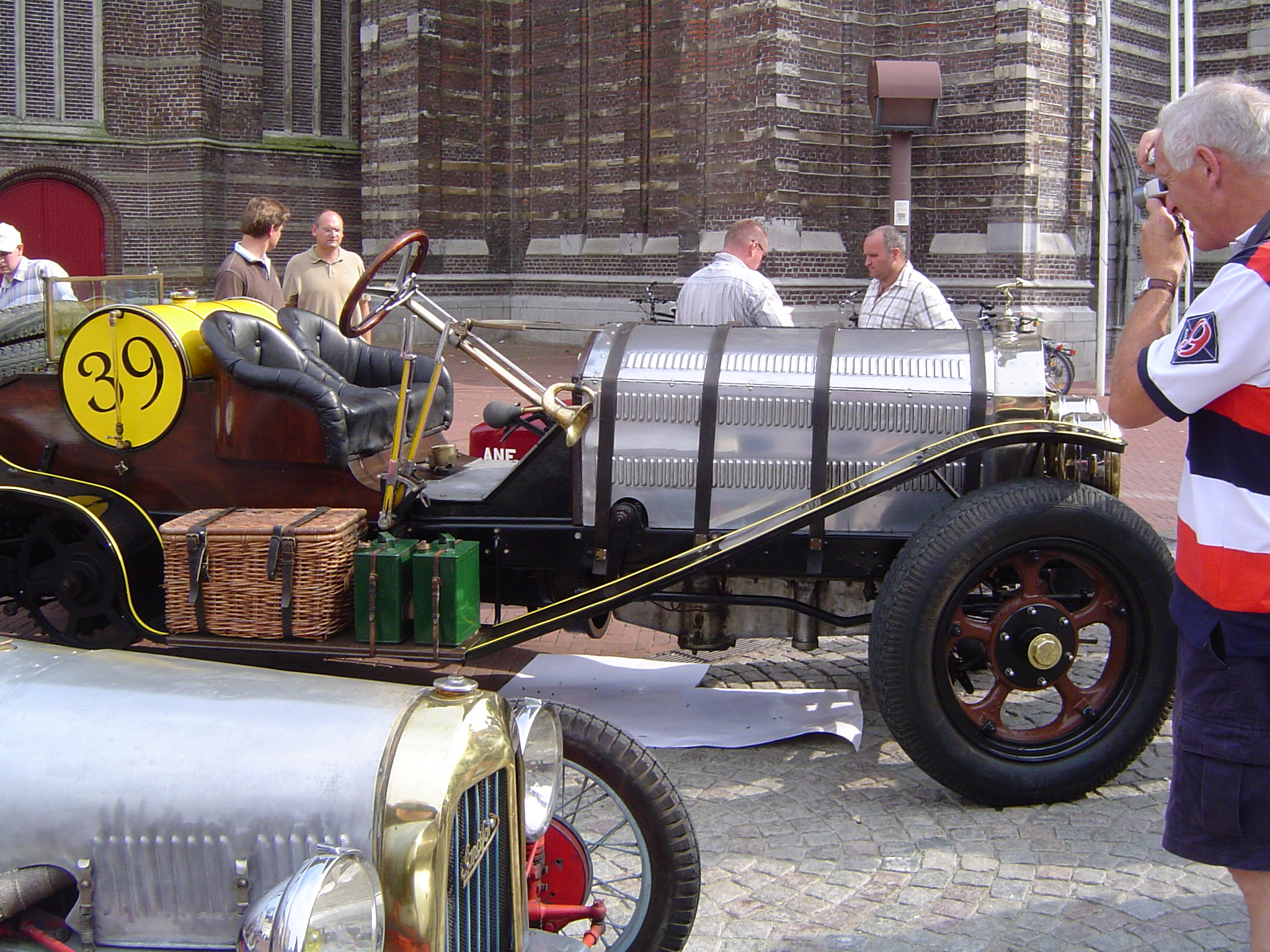 American LaFrance Speedster